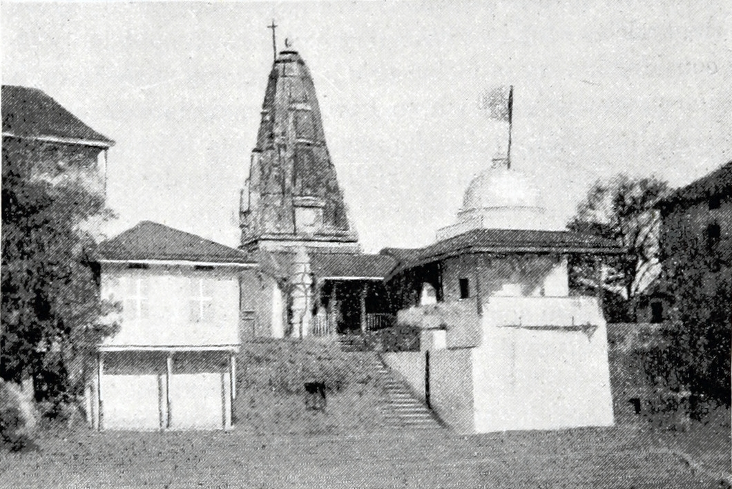 Image taken from: Title: "Bombay and Western India. A series of stray papers" Author: DOUGLAS, James - of Bombay Shelfmark: "British Library HMNTS 010056.h.10.", "British Library OC ORW.1986.a.2990" Volume: 02 Page: 268 Place of Publishing: London Date of Publishing: 1893 Publisher: Sampson Low & Co. Issuance: monographic Identifier: 000973604 Note: The colours, contrast and appearance of these illustrations are unlikely to be true to life. They are derived from scanned images that have been enhanced for machine interpretation and have been altered from their originals. If you wish to purchase a high quality copy of the page that this image is drawn from, please order it here. Please note that you will need to enter details from the above list - such as the shelfmark, the page, the book's volume and so on - when filling out your order. Explore: Find this item in the British Library catalogue, 'Explore'. Open the page in the British Library's itemViewer (page: 268) Download the PDF for this book Click here to see all the illustrations in this book and click here to browse other illustrations published in books in the same year. Please click on the tags shown on the right-hand side for other ways to browse the illustrations.